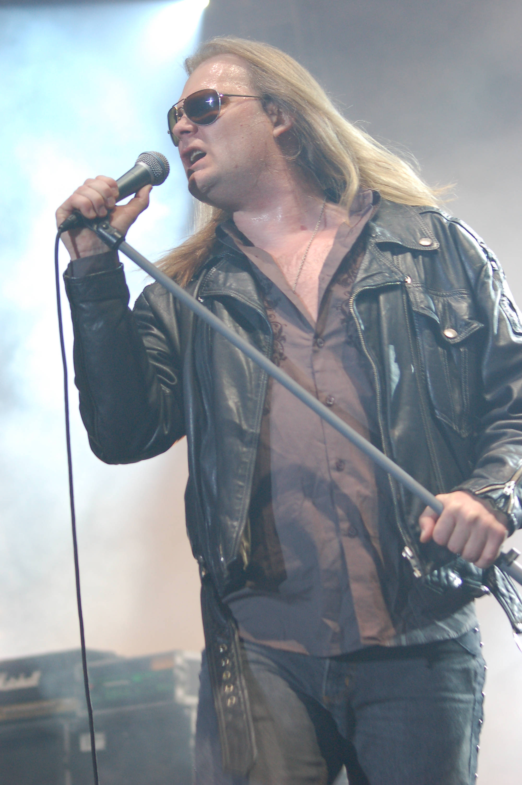 Jørn Lande during Metalmania 2007 festival